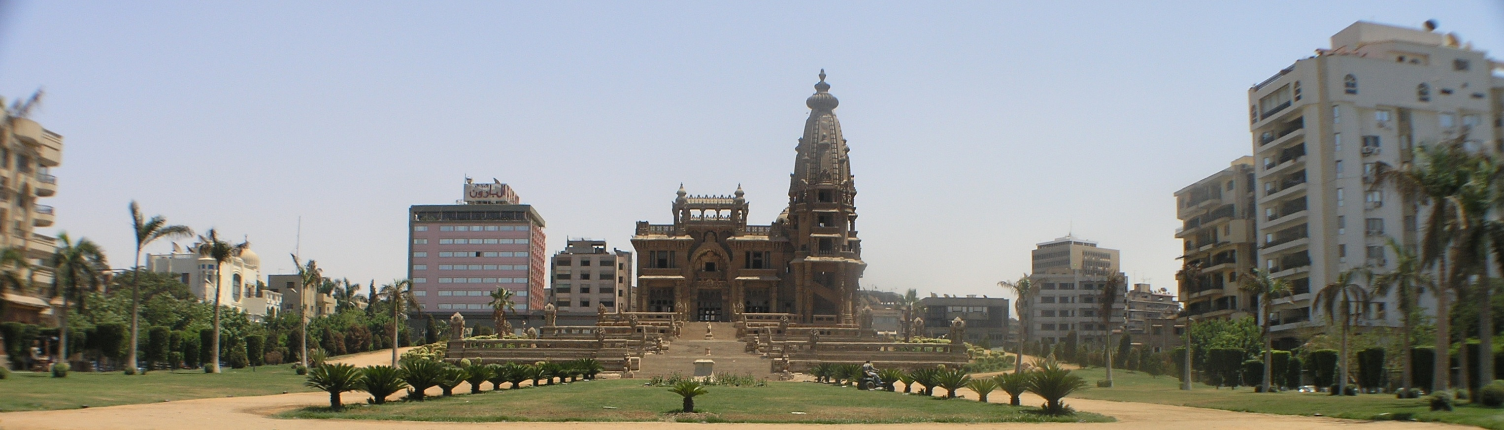 Cairo - Heliopolis - Baron Palace - wide shot